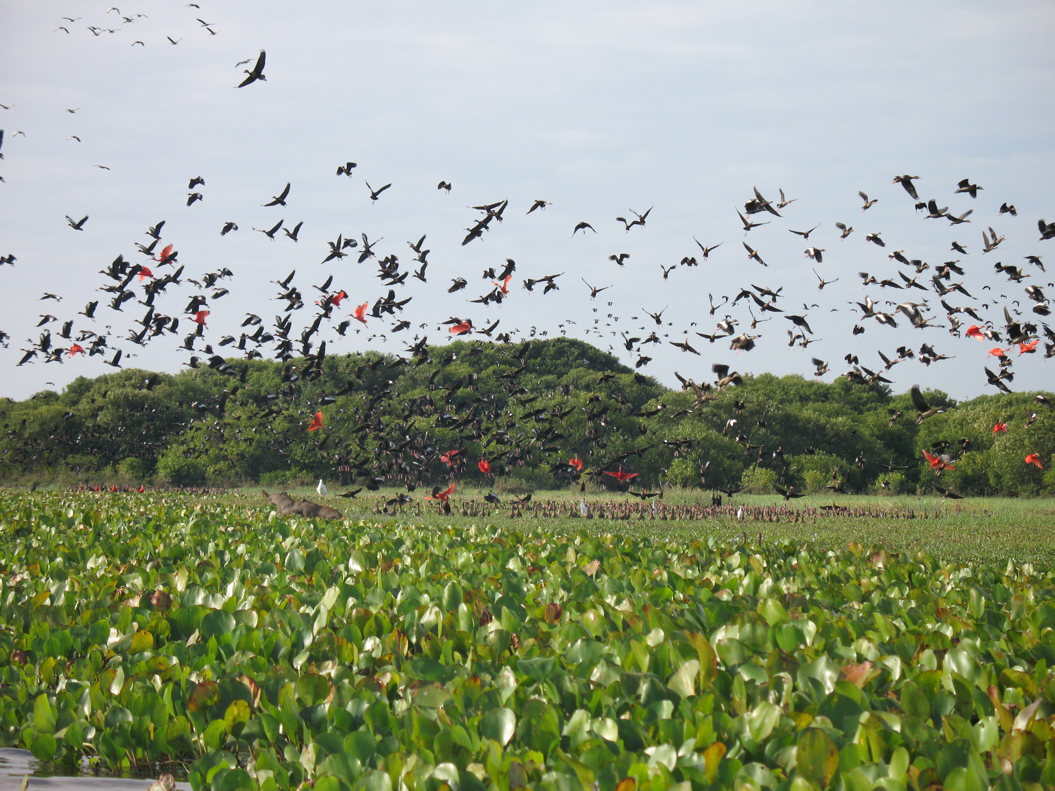 Landscape in the Llanos Plain, Venezuela